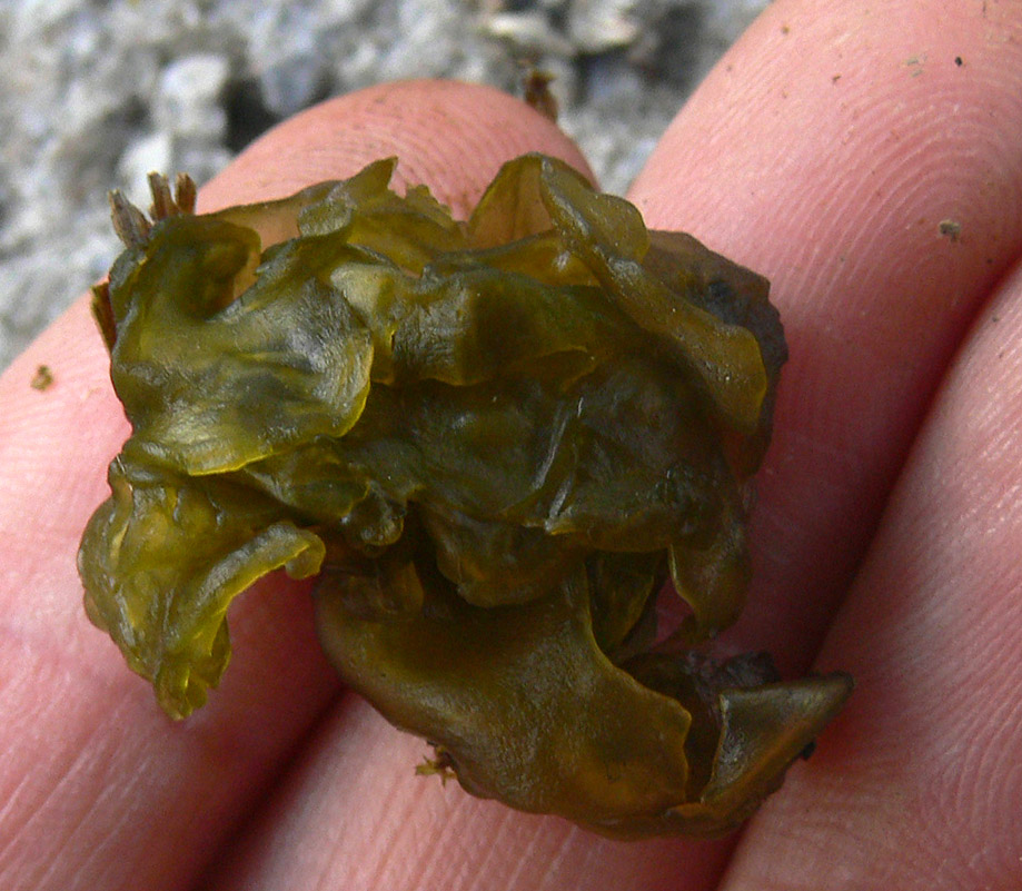 Nostoc (primitive bacteria) collected on a path of limestone materials (metal-rich; industrial waste from the metallurgical factory Sollac of Dunkirk (now Arcelor-Mital), on the edge of the channel of Noeufossé, on the territory of Renescure (North County ) The place is locally named pont Asquin ("Asquin Bridge.")